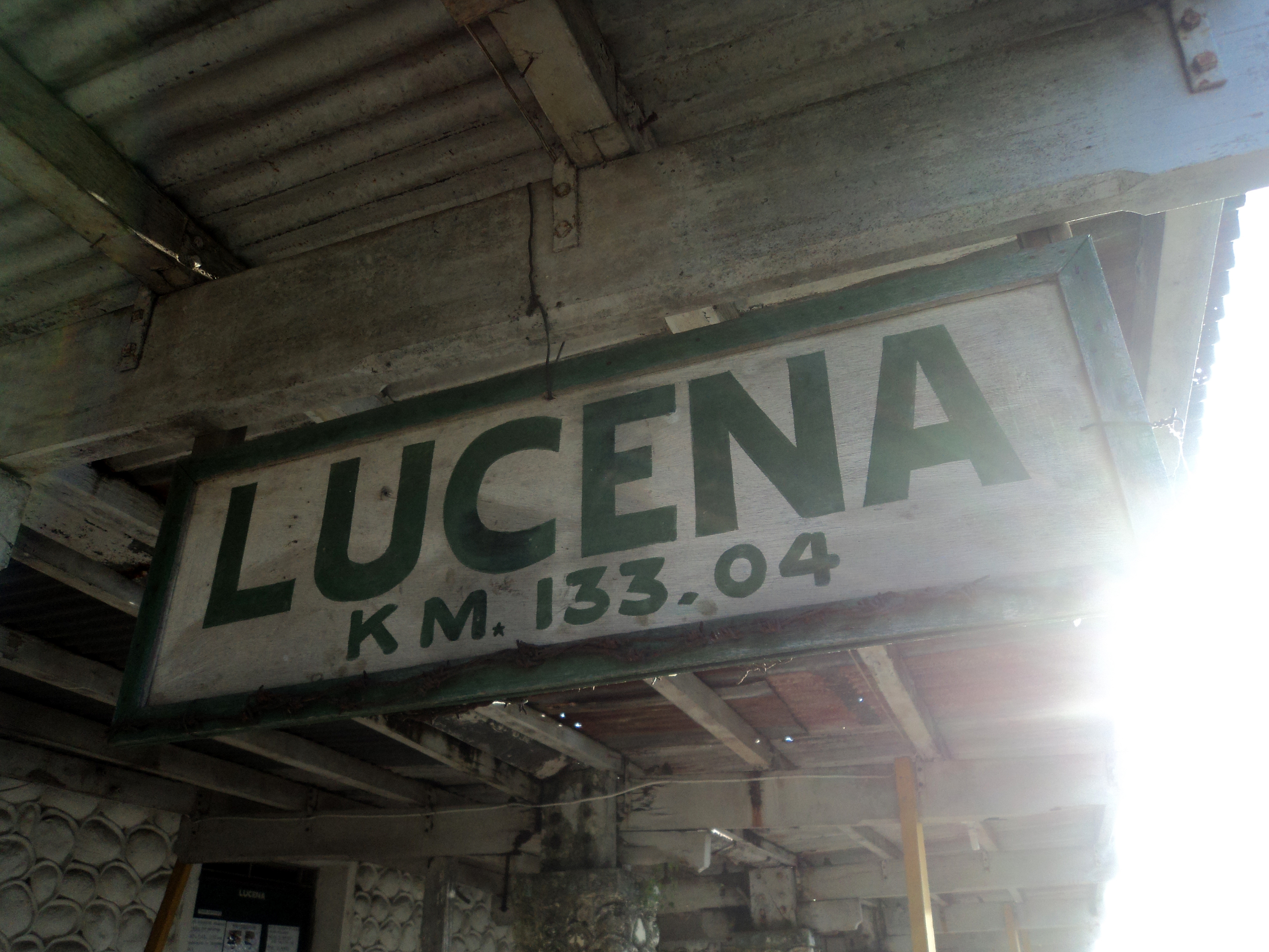 Sing board in Lucena City Train Station